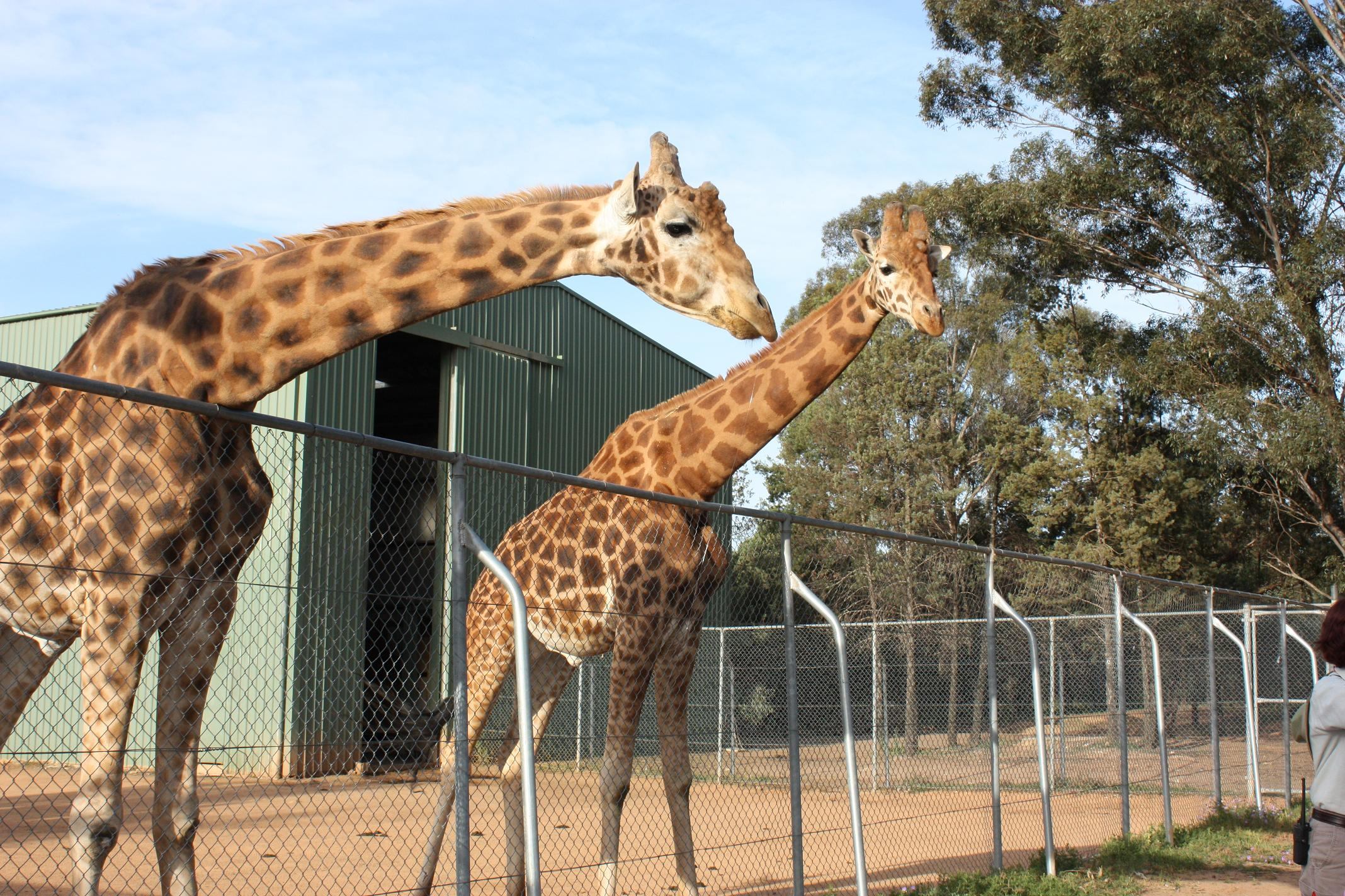 Giraffes at Taronga Western Plains Zoo, near Dubbo, New South Wales, Australia.